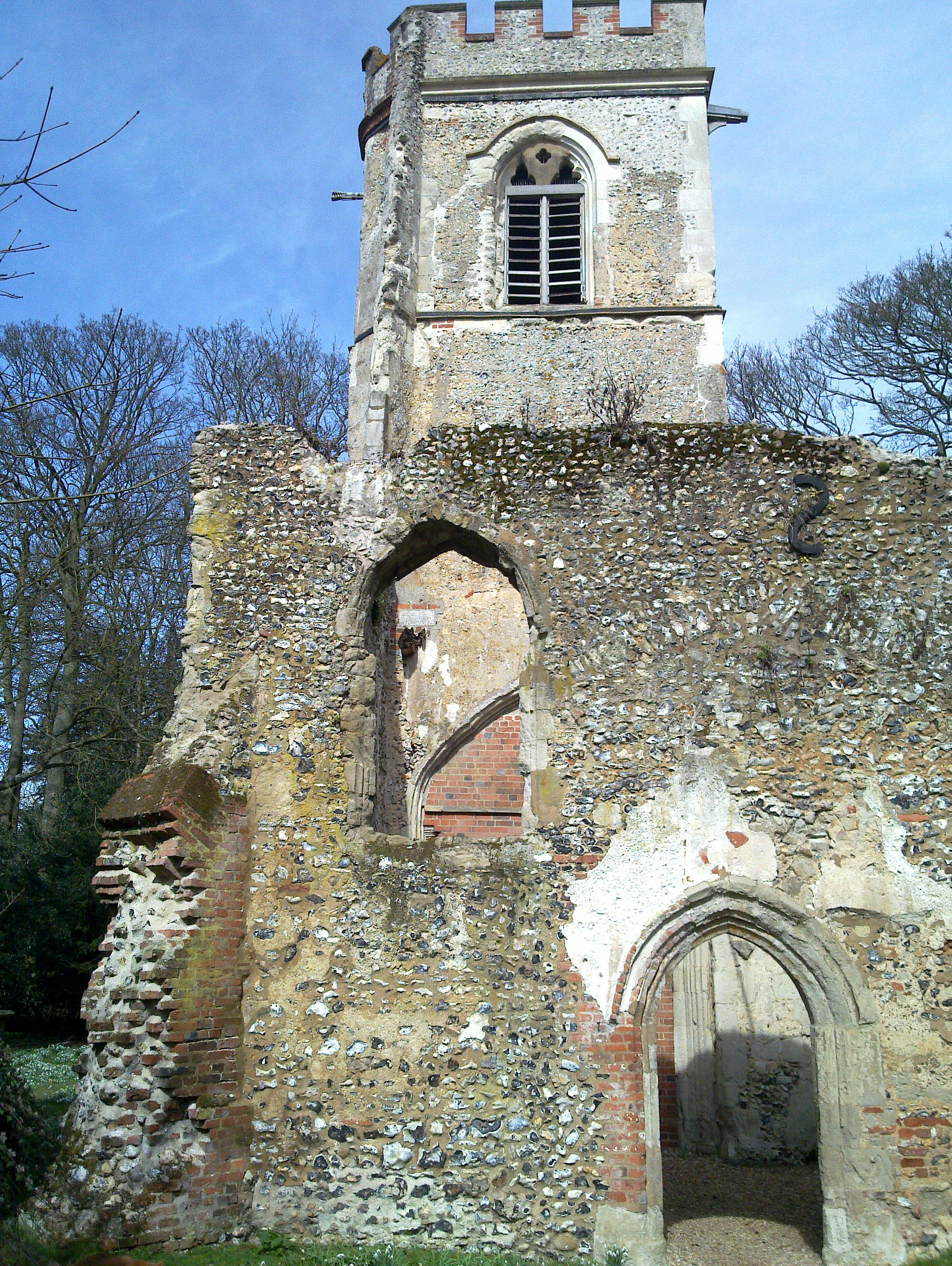 The ruined church at Ayot St Lawrence